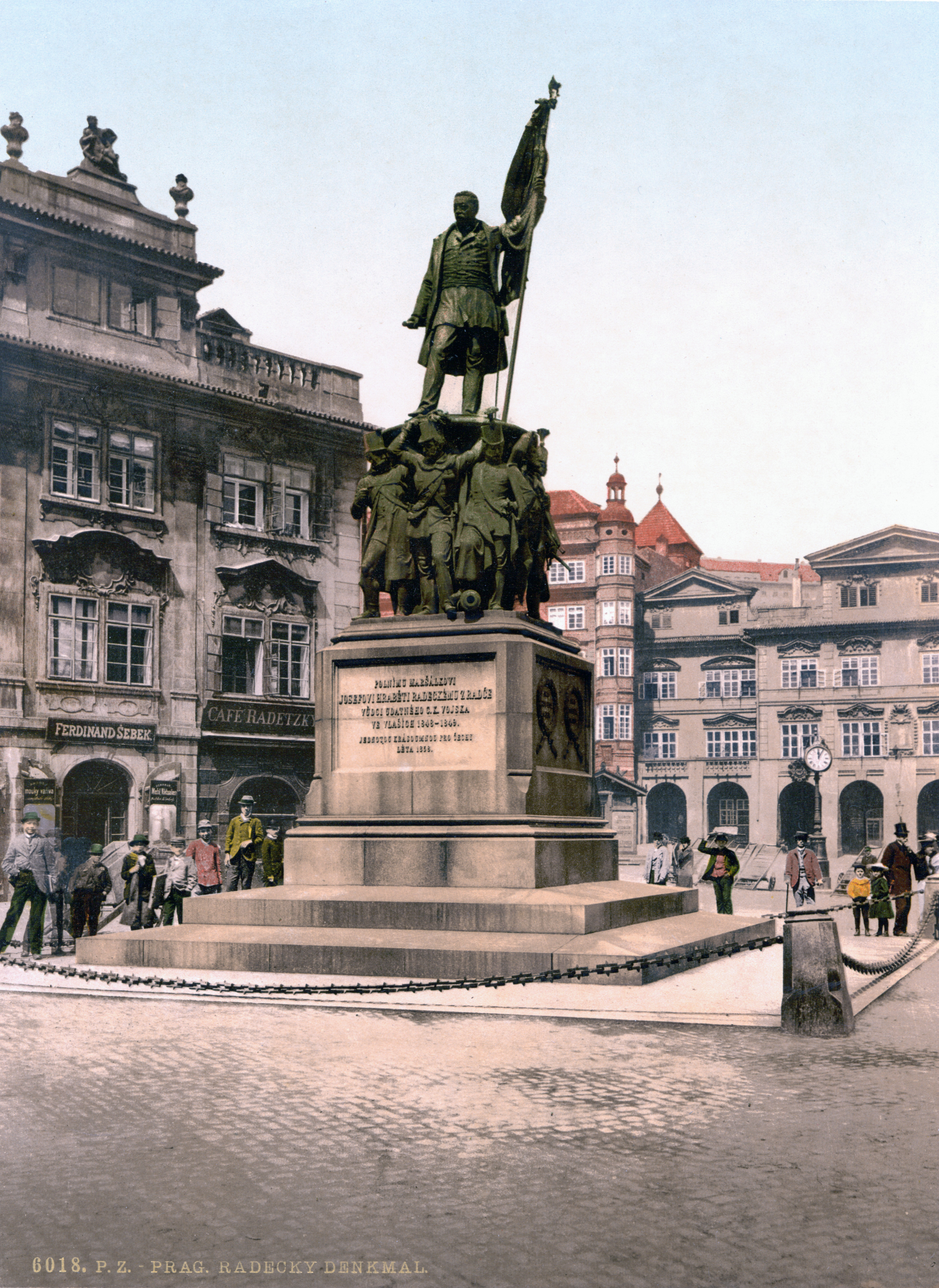 Former memorial of Field Marshal Radetzky by Josef and Emanuel Max in Prague. Removed after 1918 and today displayed in collections of the National Museum.